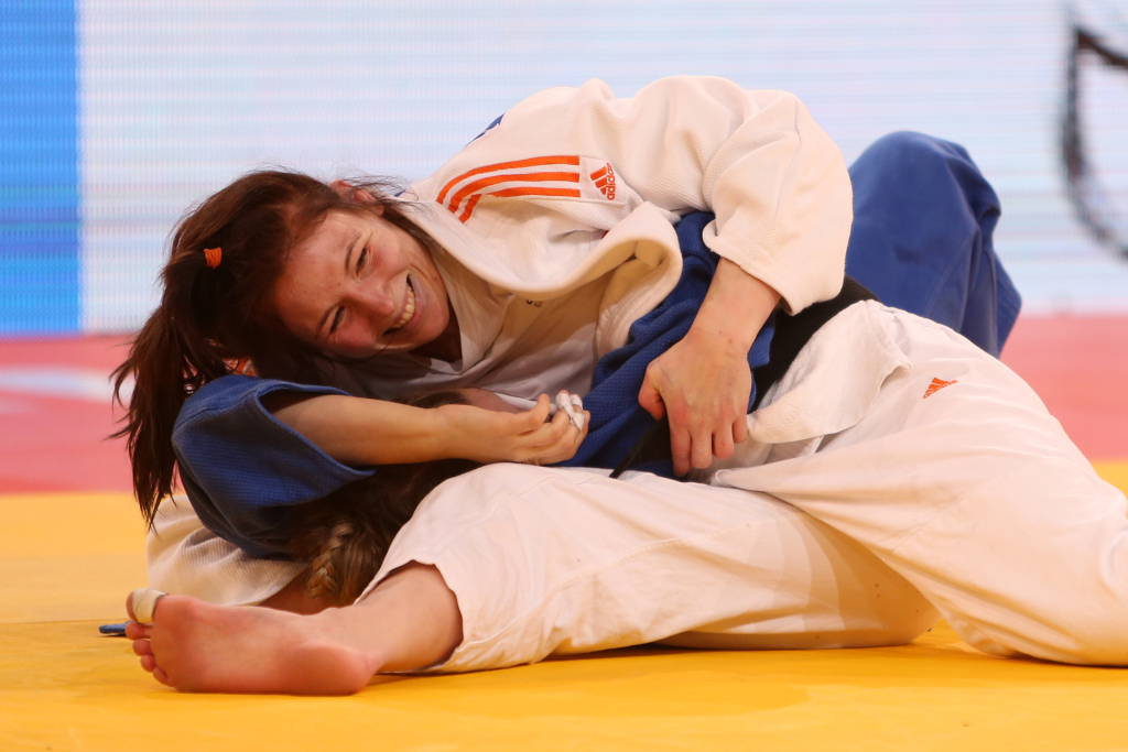 Winner Grand Slam Paris